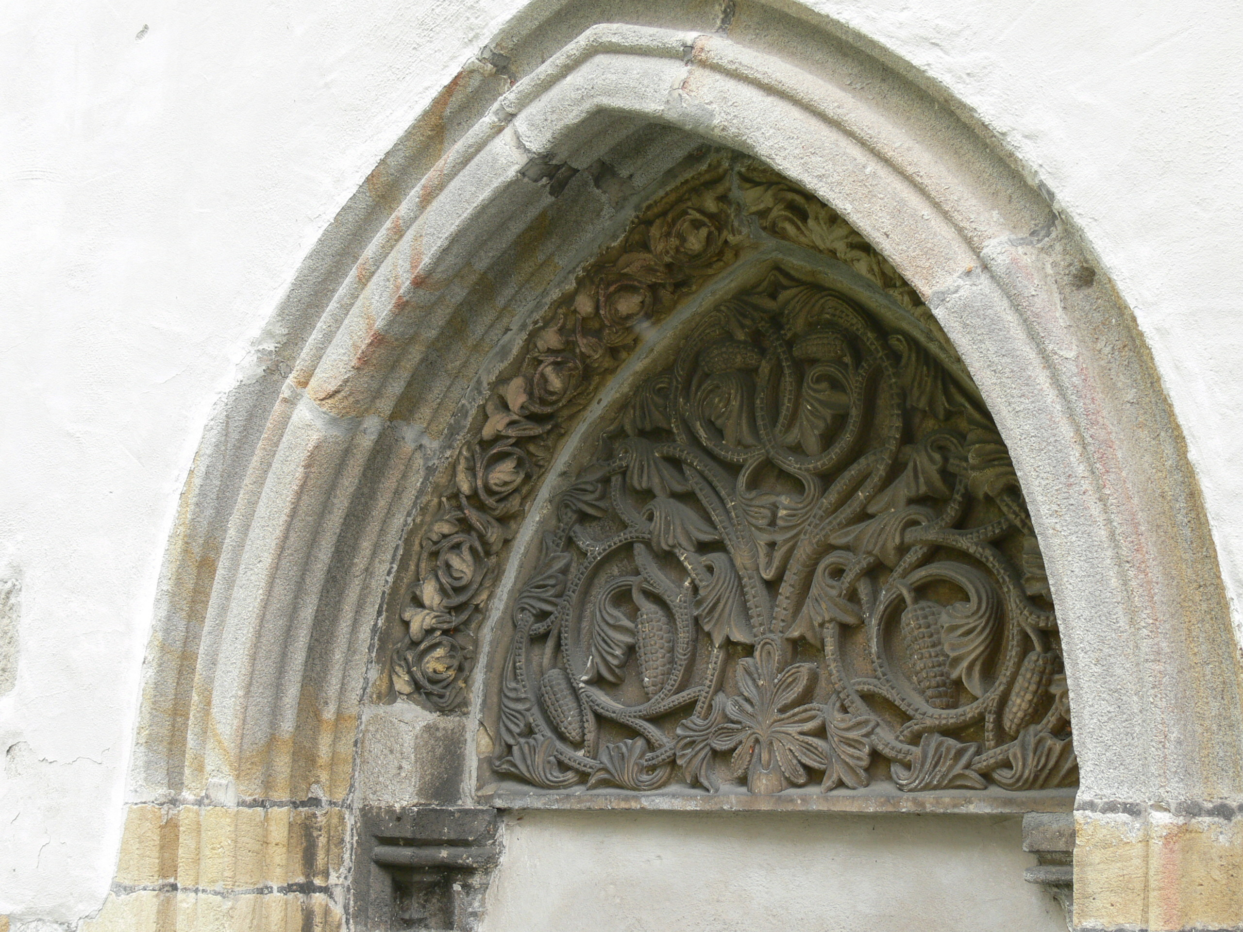 Niederaltaich abbey church ( Lower Bavaria ). Romanesque tympanum ( 1037 ).